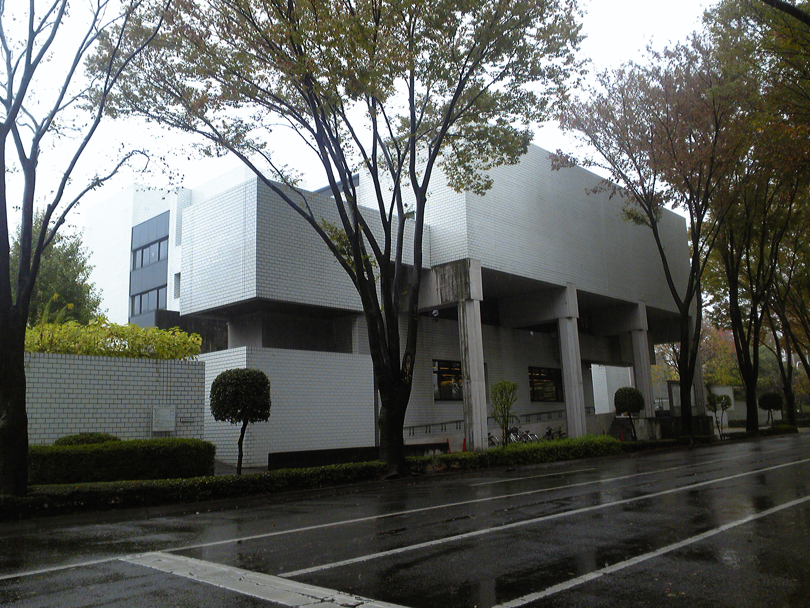 Gunma Prefectural Library(Maebashi city, Gunma prefecture)